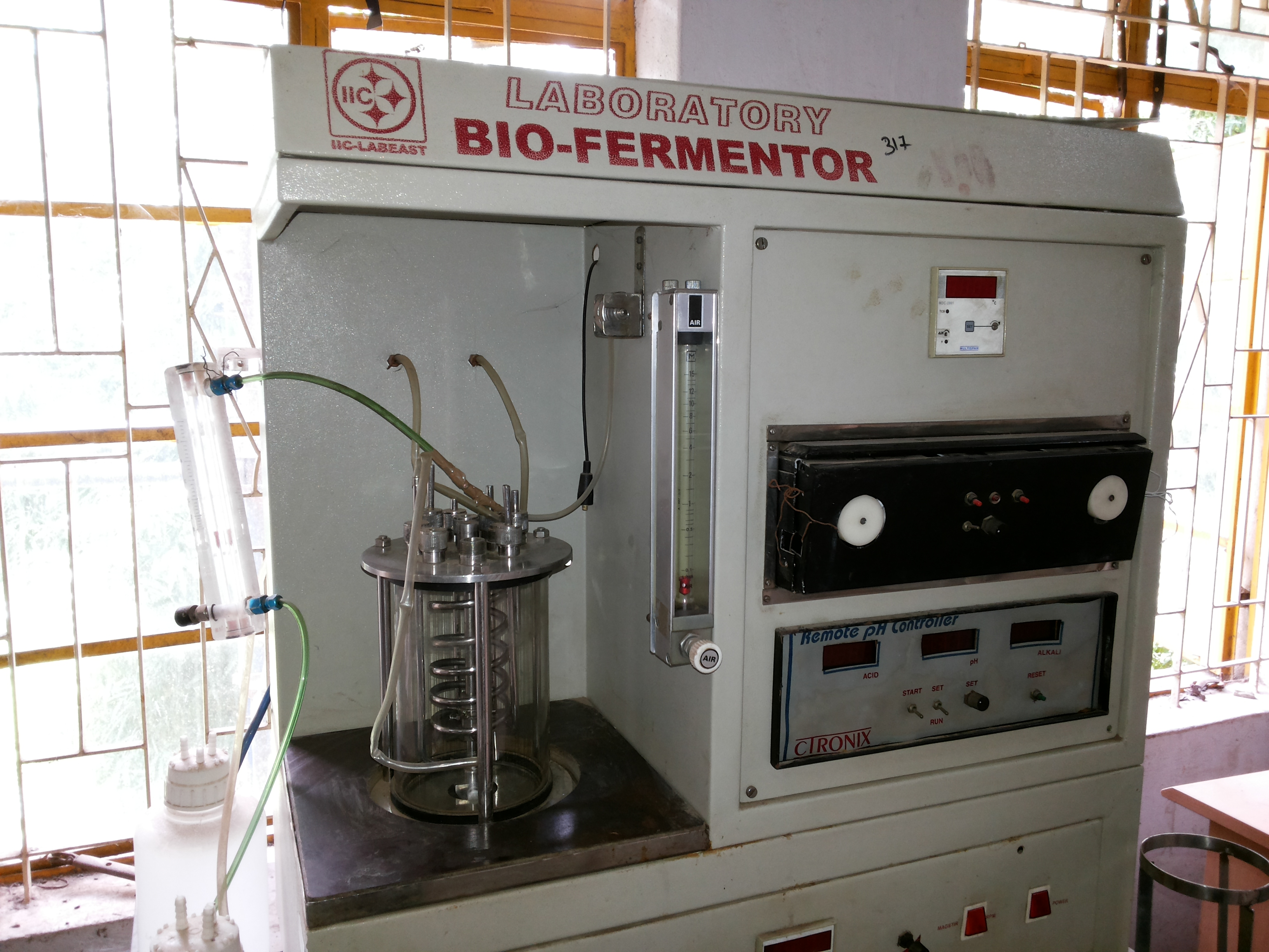 Biofermentor at NIT Rourkela Chemical Engineering Department